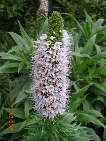 A work released per the GNU Free Documentation License by : FRANCISCA JIMENEZ ( Gran Canaria ) Spain.